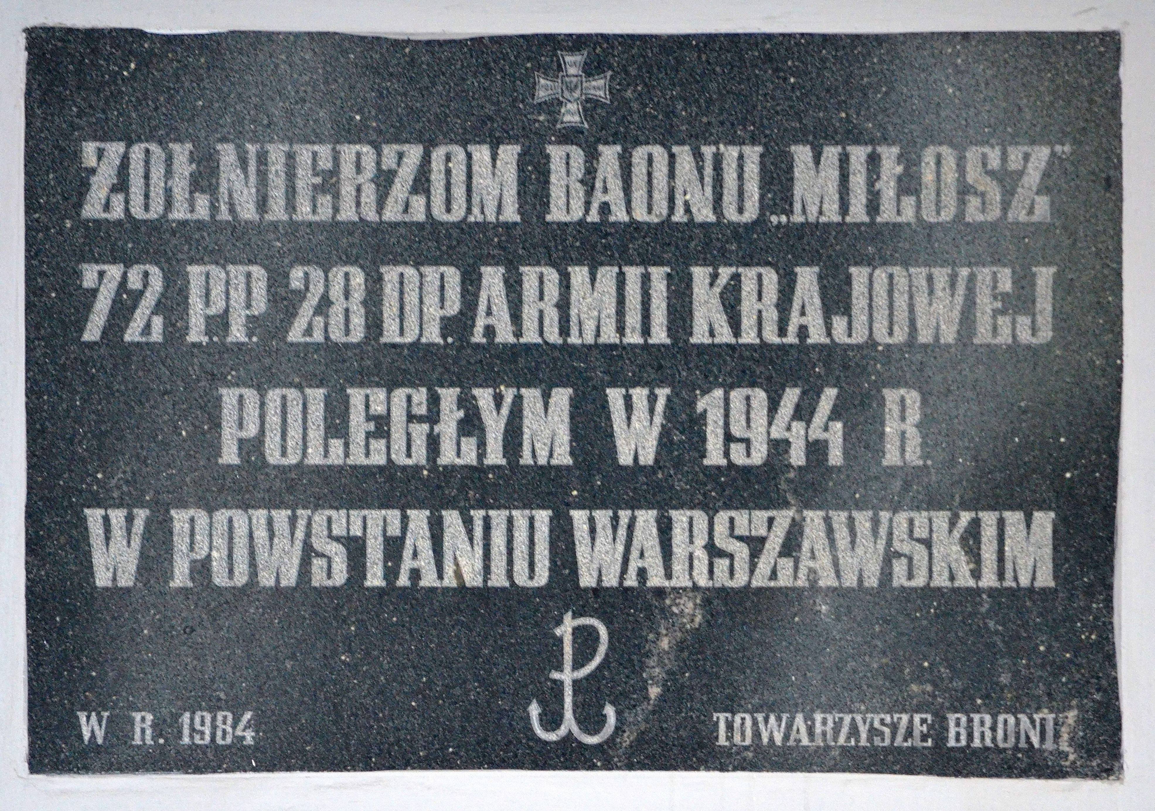 Plaque commemorating :Miłosz" Battalion at 6 Konopnicka Street in Warsaw